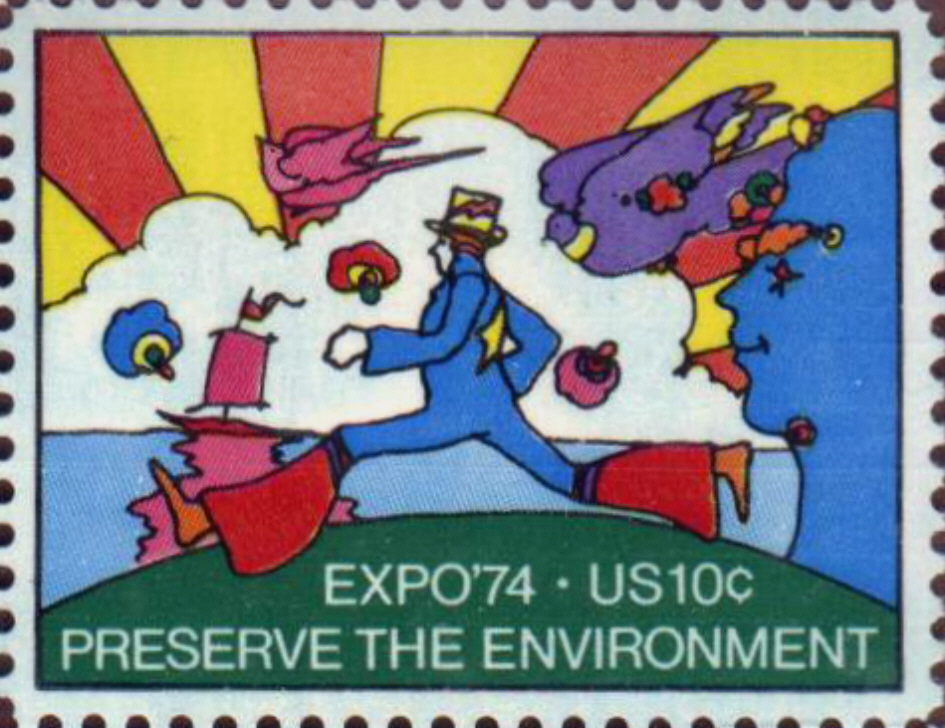 1974 10c U.S. stamp Expo '74 World's Fair Issue - displaying an image of Peter Max's "Cosmic Runner"